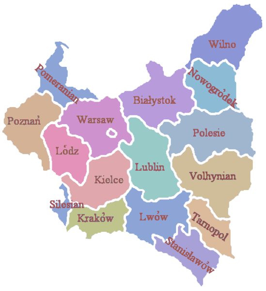 Voivodeships of Poland, 1921-1939.